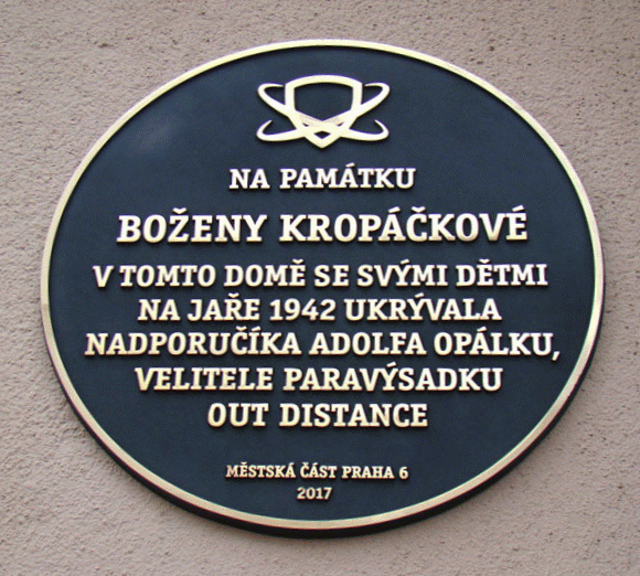 On June 6, 2017 at 17:00 on the wall of the apartment building at Buzulucká 678/6 160 00 Prague 6 - Dejvice was unveiled thememorial plaque with the inscription: In memory of / Božena Kropáčková. / In this house with his children / in the spring of 1942 she hidinged /parachutist Lieutenant Adolf Opálka, the commander of the parachutist action / "Out Distance". // City District Prague 6/ 2017.